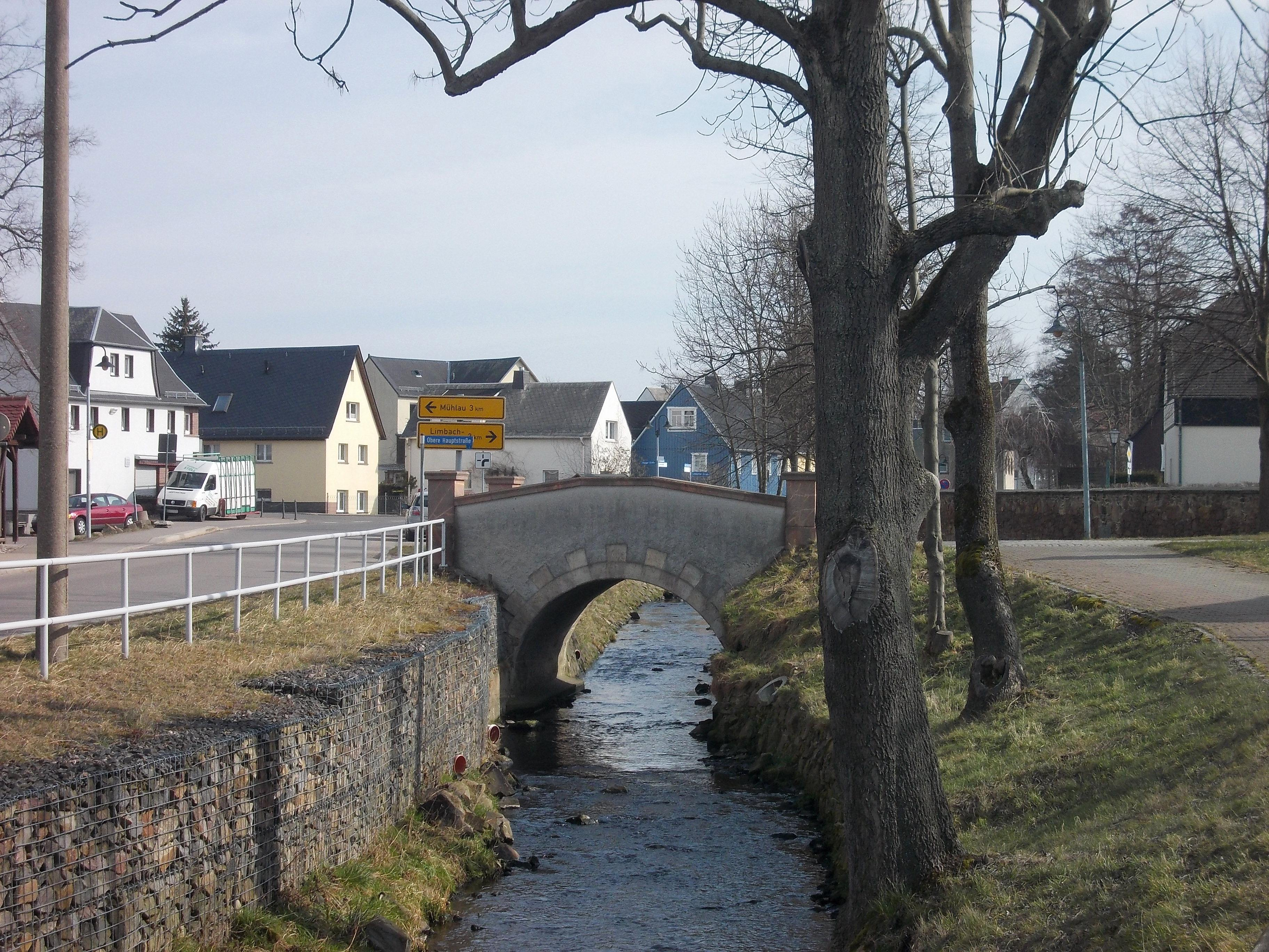 Frohnbach with the bridge at Mittelfrohna estate (Niederfrohna, Zwickau district, Saxony)